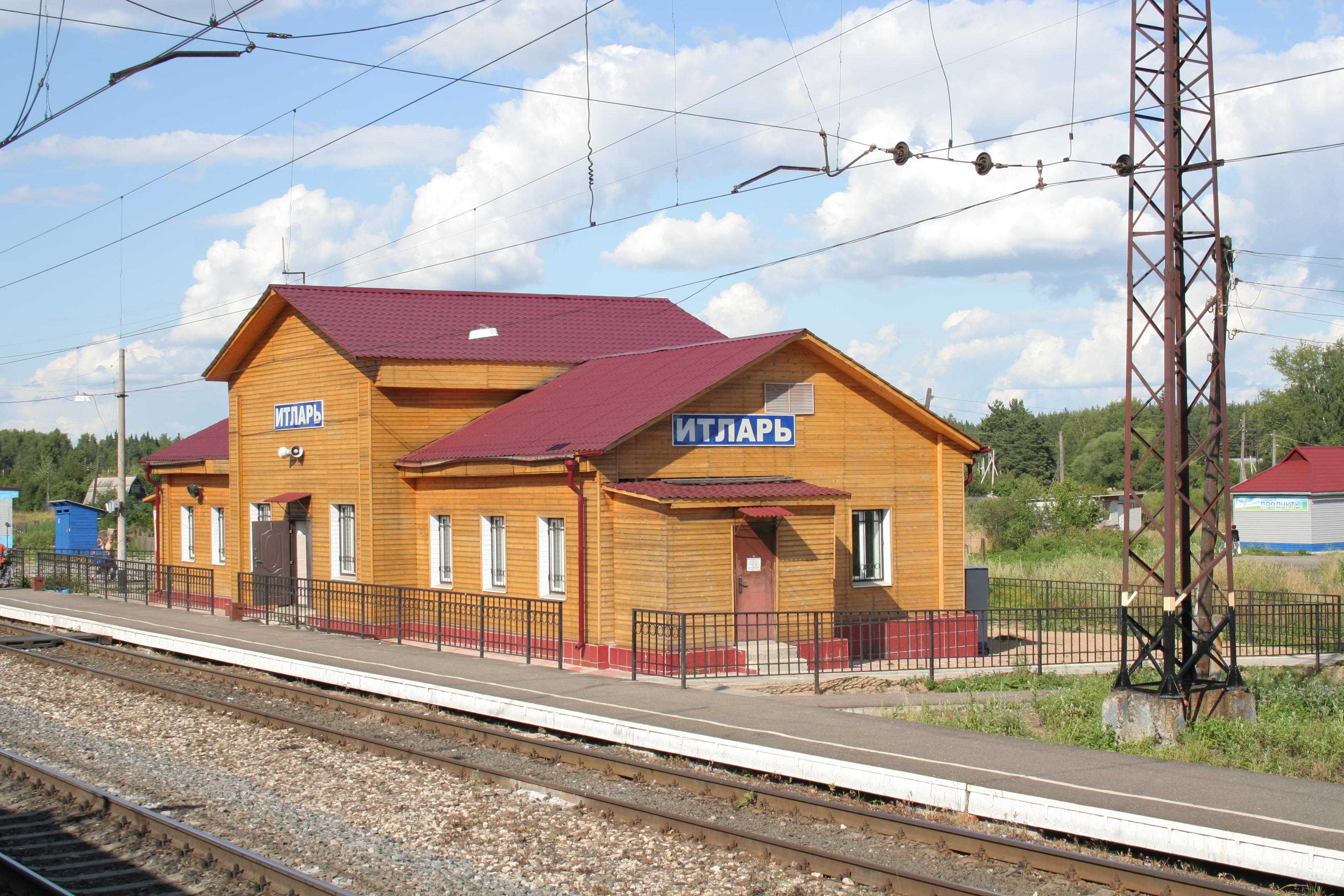 Train station Itlar, Yaroslavl Oblast, Russia